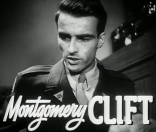 Cropped screenshot of Montgomery Clift from The Search.